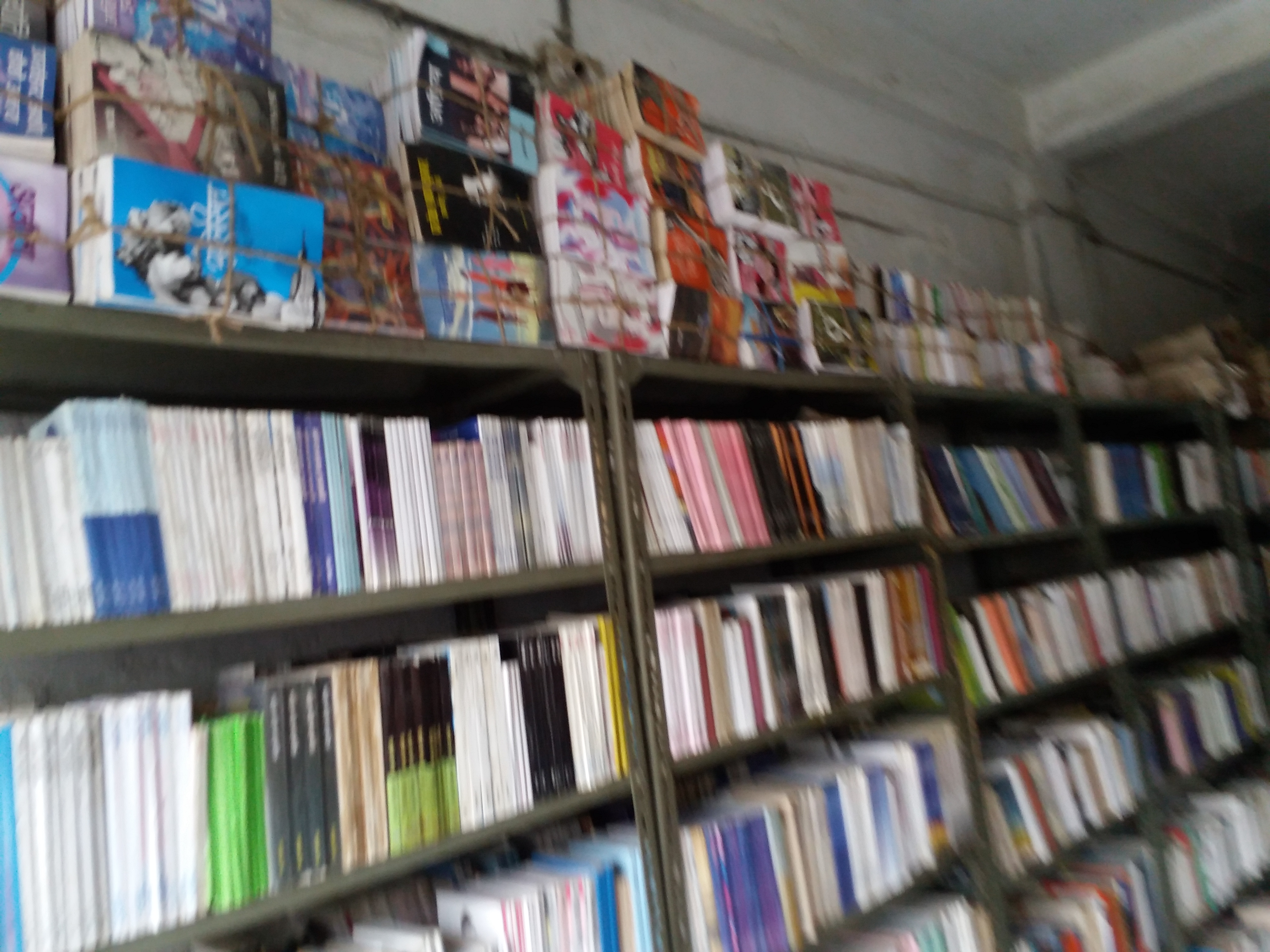 Sajha Prakashan Biratnagar